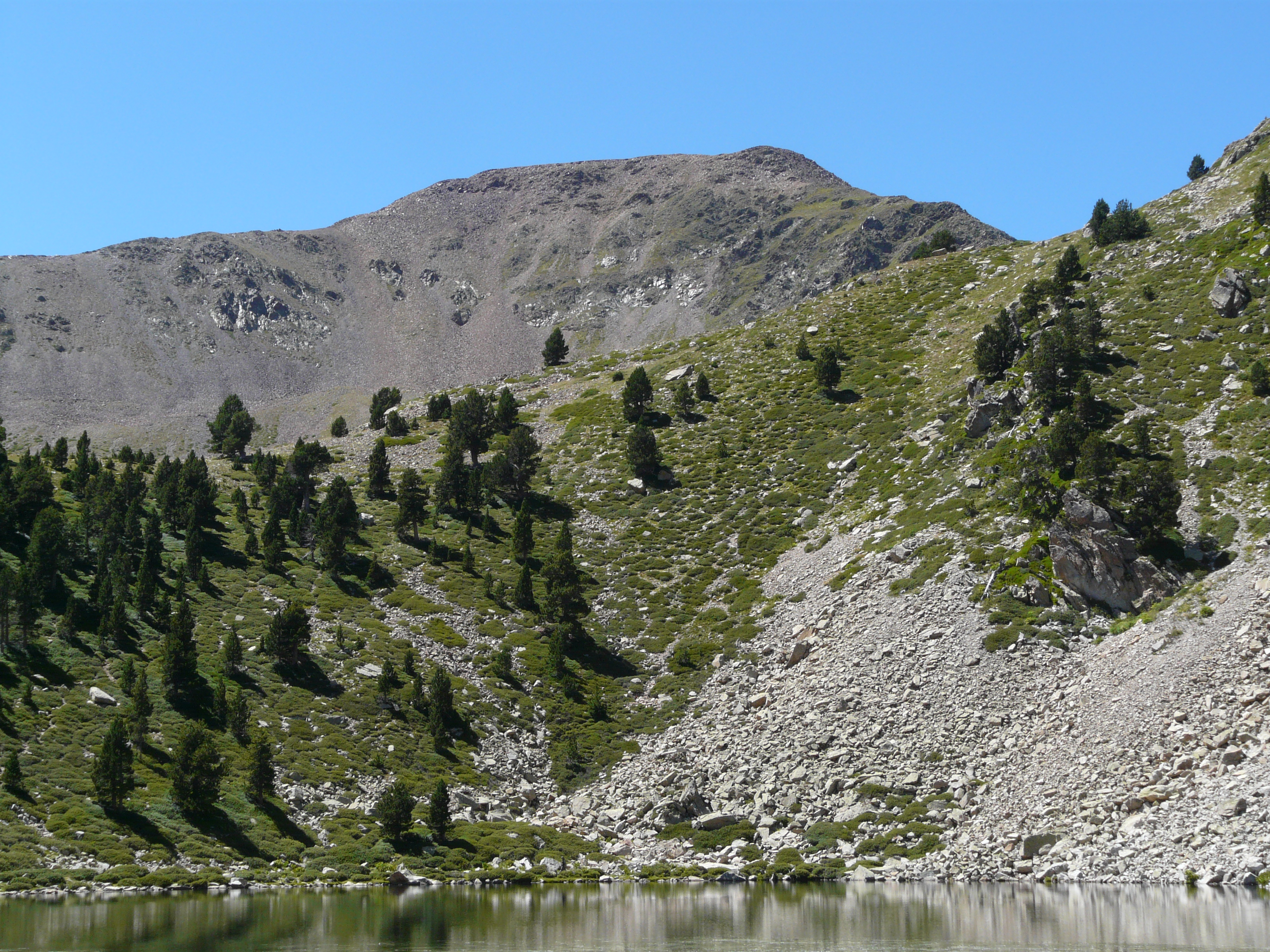 Monturull (mountain) and Estany Gran de la Pera (lake) This is a a photo of a wetland in Catalonia, Spain, with id: IZHC-18001505